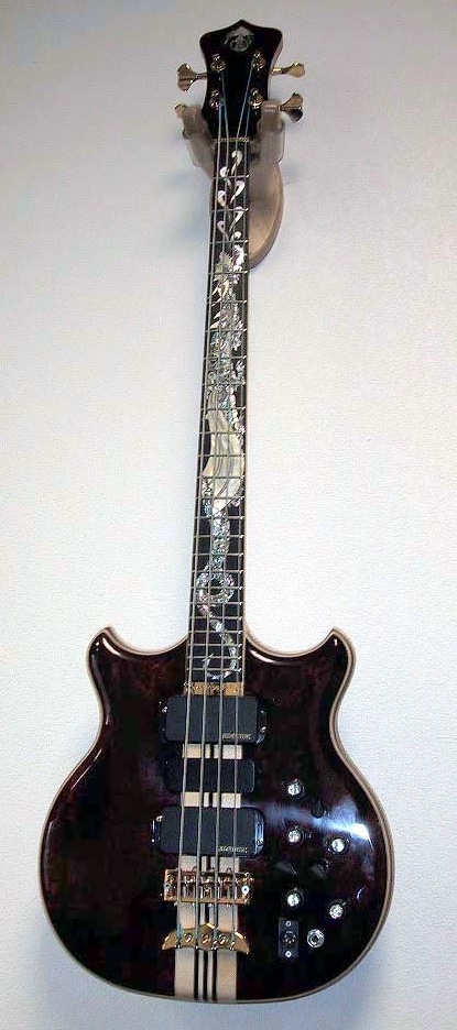 This is an Alembic custom bass, named Dragon's Breath. It's a Series II bass made for and presented to Stanley Clarke based on his specifications. More info is at (Jamie Flournoy, the uploader of this image to Wikipedia, took this picture on 2004-07-07.)